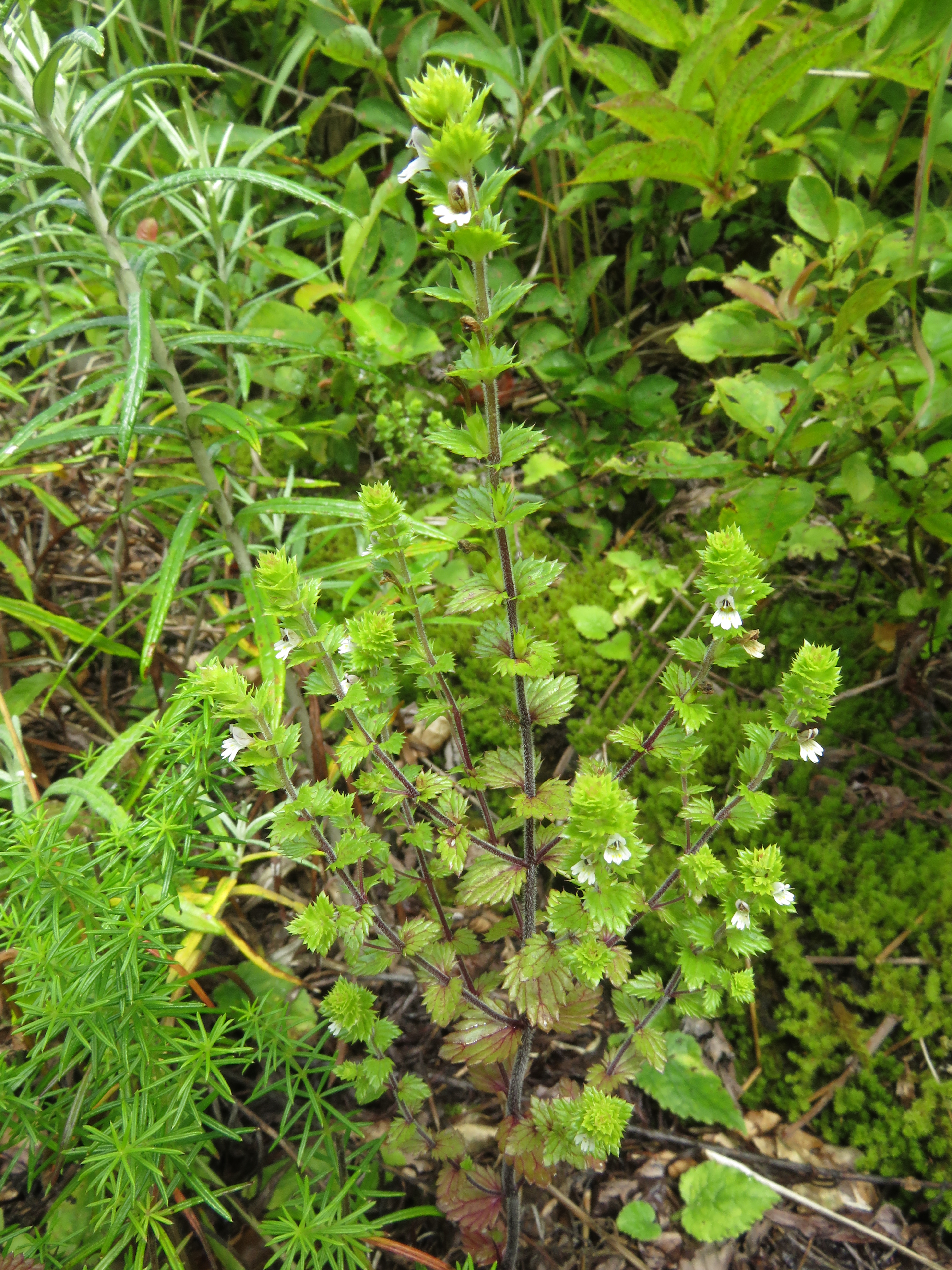 Euphrasia maximowiczii, Aizu area, Fukushima pref., Japan